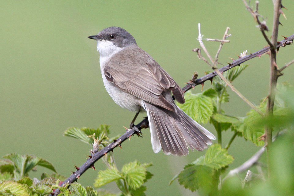 Lesser Whitethroat (Sylvia curruca) at Beltout, Beachy Head, England